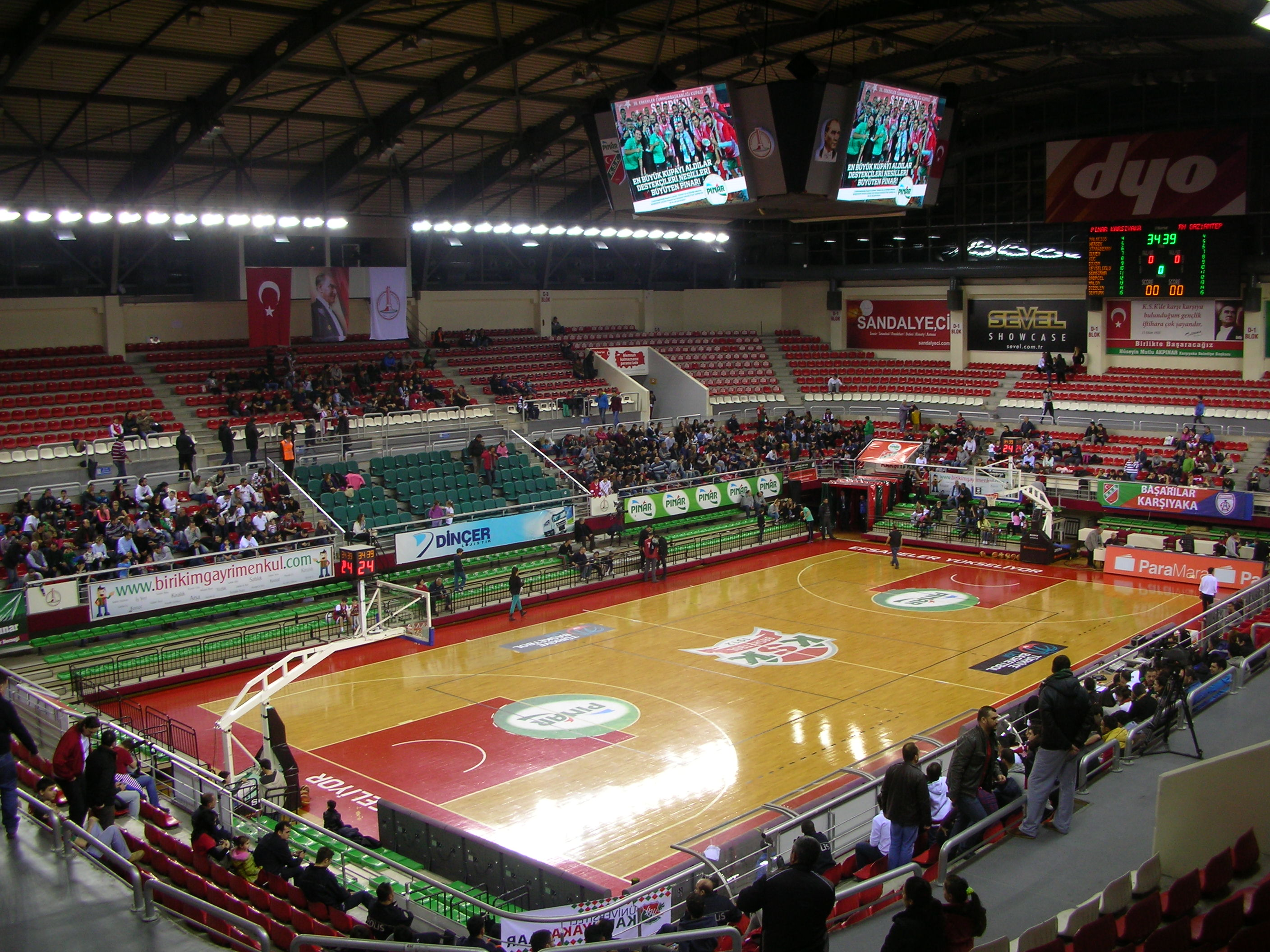 A view of Karşıyaka Arena before Royal Halı Gaziantep game in Turkish Basketball League on 21 March 2015.